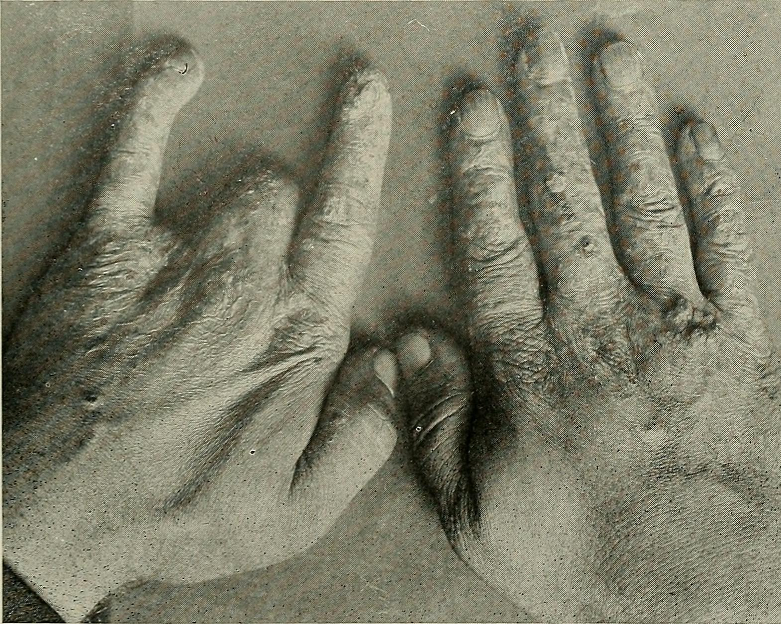 Title: Röntgen rays and electro-therapeutics : with chapters on radium and phototherapy Year: 1910 (1910s) Authors: Kassabian, Mihran Krikor, 1870-1910 Subjects: Electrotherapeutics X-rays Phototherapy Radiology Radiotherapy Publisher: Philadelphia & London : J.B. Lippincott Company Text Appearing Before Image: Fig. 209C.—Photograph taken April 1, 1909. The ulcer on the ring finger grew since Jan. 1909. Text Appearing After Image: Fig. 209D.—Photograph taken Sept. 21,1909; shows the amputation of two fingers, performed byDr. W. W. Keen, April 6,1909. The wound was perfectly healed May 6, 1909. Since then the wartygrowth ou the right hand was removed, and both hands at the present time (January 1910) showmarked improvement. ACTION OF THE RONTGEN RAYS. 401 Kienbock^ classifies X-ray burns as follows : Those of the first degree, which appear from twelve to sixteen or more days afterexposure. The hair loosens, falls out, and leaves the skin smooth, bald, and occa-sionally pigmented. Those of the second degree, where the exposure has been more intense andappears after a briefer interval than in burns of the first degree. There is localizedor general swelling. The hypen^mia, at first light, later assumes a darker color.There is marked irritation. These symptoms are followed by loss of hair, and bymarked cutaneous pigmentation with subsequent scaling ; the skin is smooth and sen-sitive, of a delicate hue, and devoid